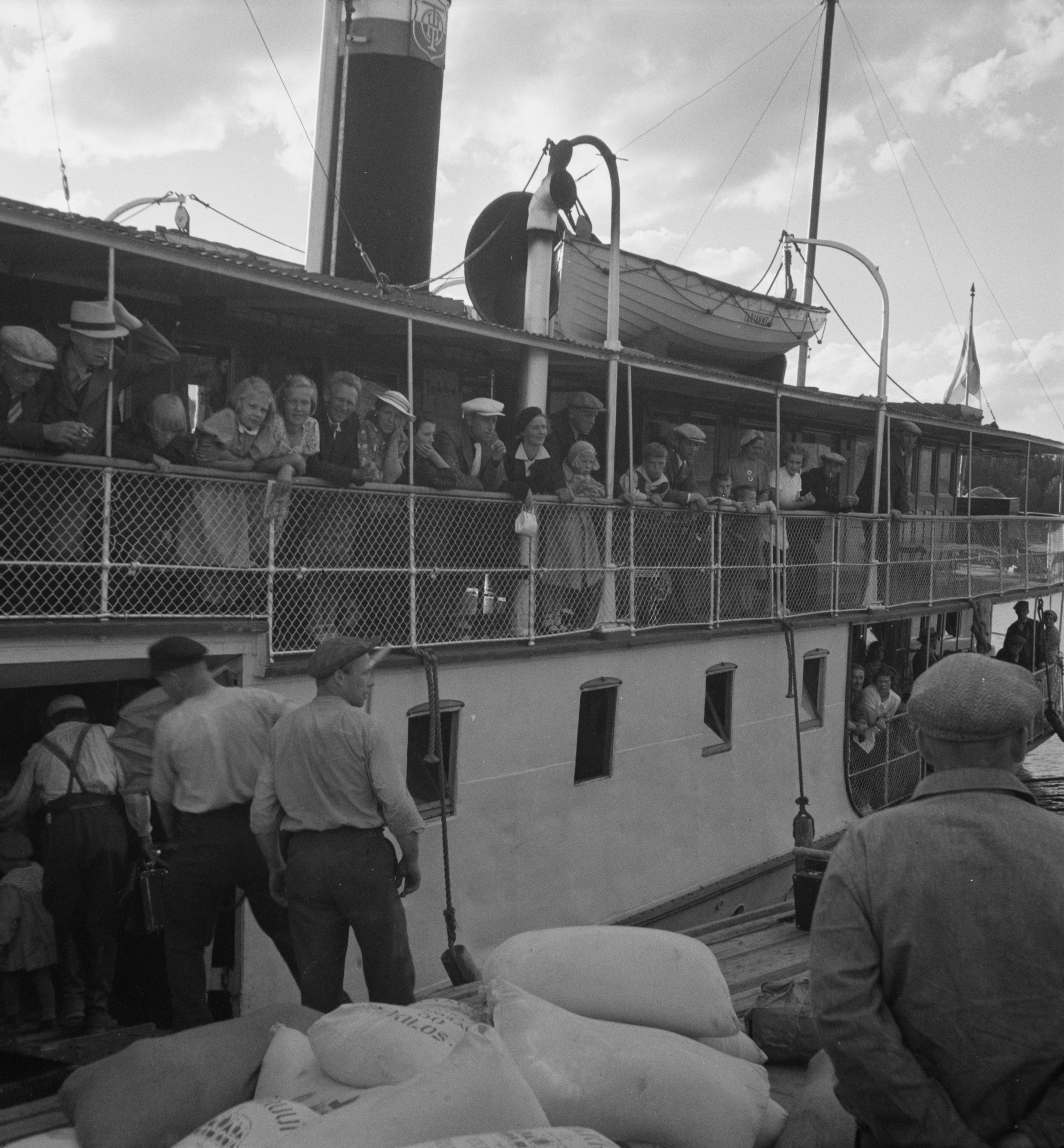 SS Tarjanne inland ship. Library of Congress title: Miscellaneous lot of photographs by Barbara Wright. Finland